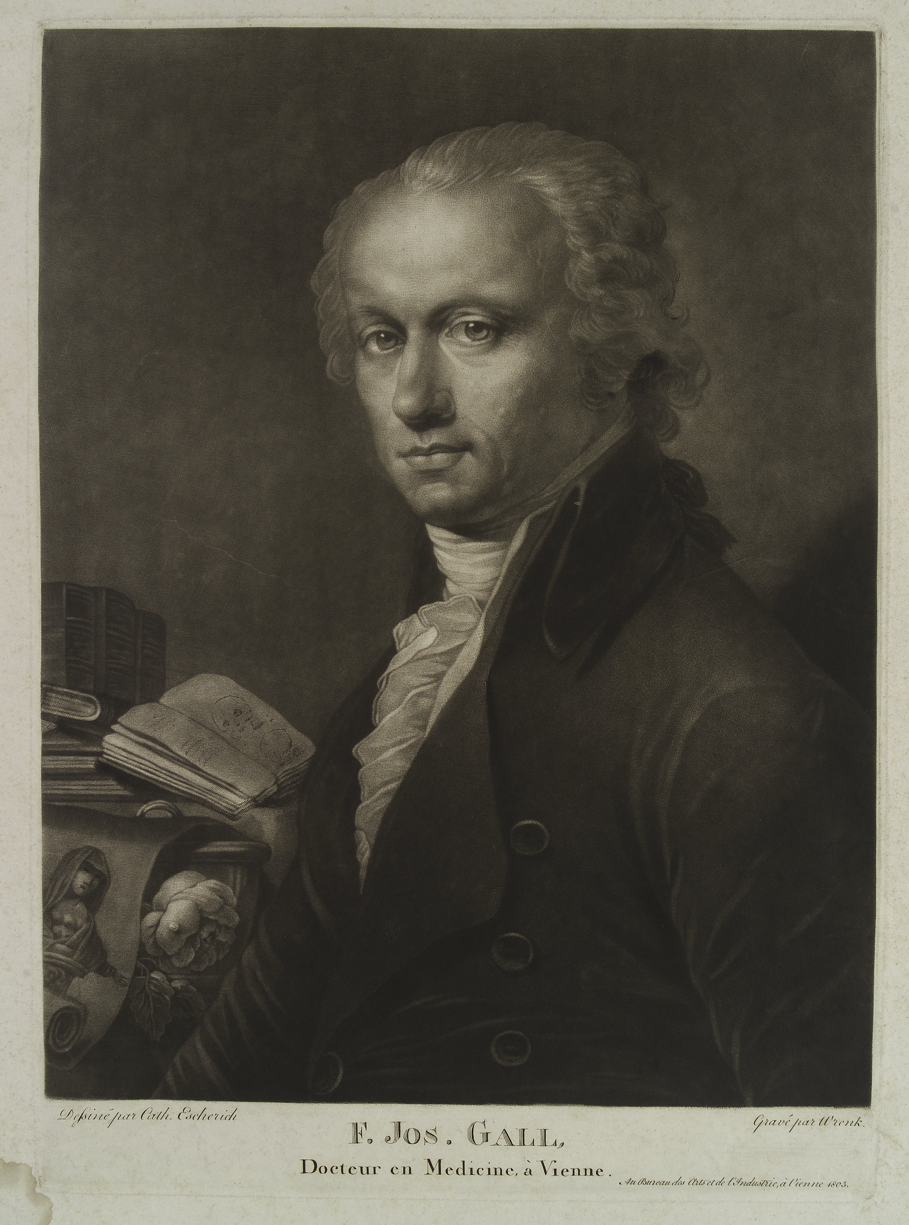 Franz Joseph Gall (1758 - 1828), German neuroanatomist and physiologist Iconographic Collections Keywords: F. J. Gall; Psychology; Catharina. Escherich; Portraiture; Phrenology; Franz Wrenk